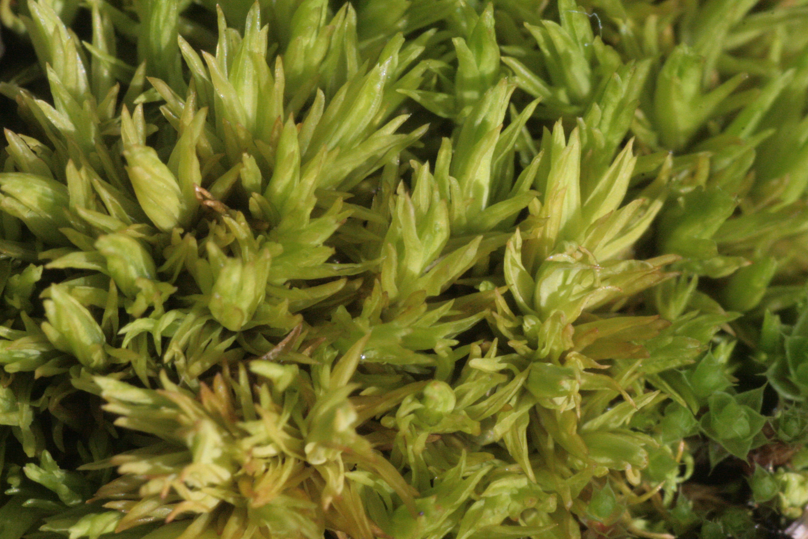 Tortella inclinata